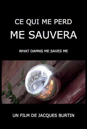 Film poster for "Ce qui me perd me sauvera"